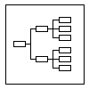 Tree Diagram part of Seven Management and Planning Tools by Jon D Toellner